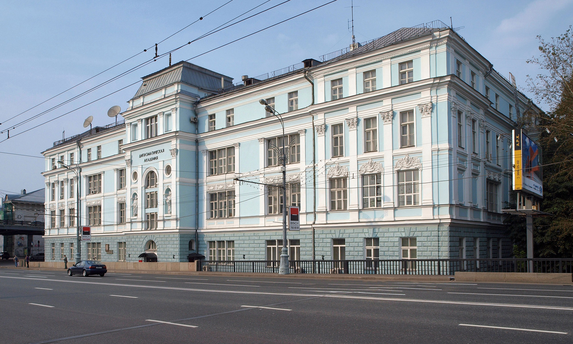 Diplomatic Academy of Russia (corner of Ostozhenka Street and Garden Ring, view from across Krymsky bridge)